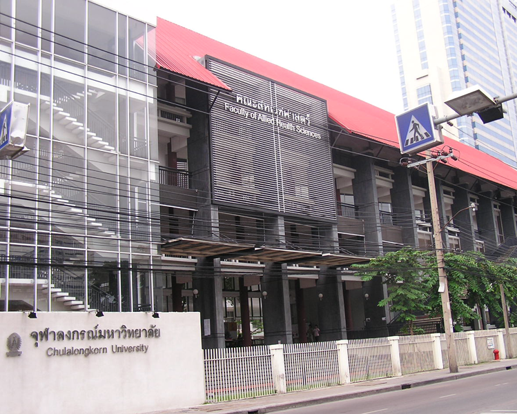 Faculty of Allied Health Sciences, Chulalongkorn University, Bangkok, Thailand